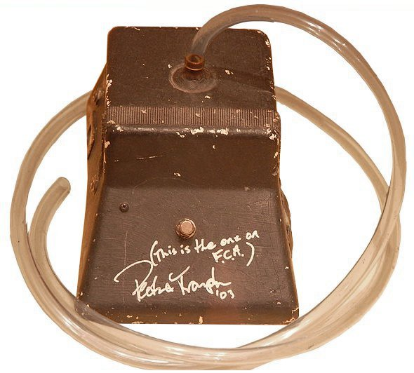 Used on Frampton Comes Alive